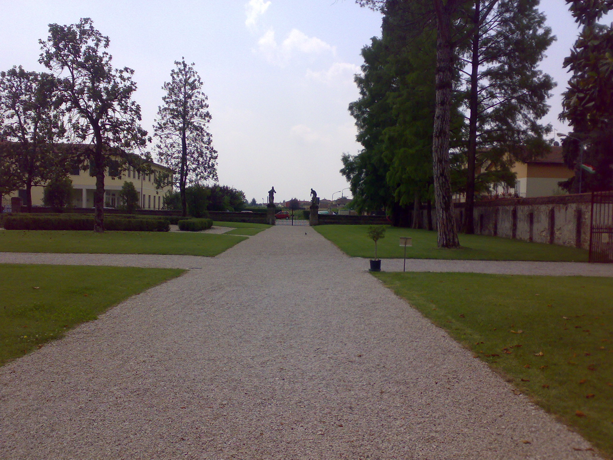 Villa Caldogno, Caldogno (Province of Vicenza). The park of the villa (view from entrance)